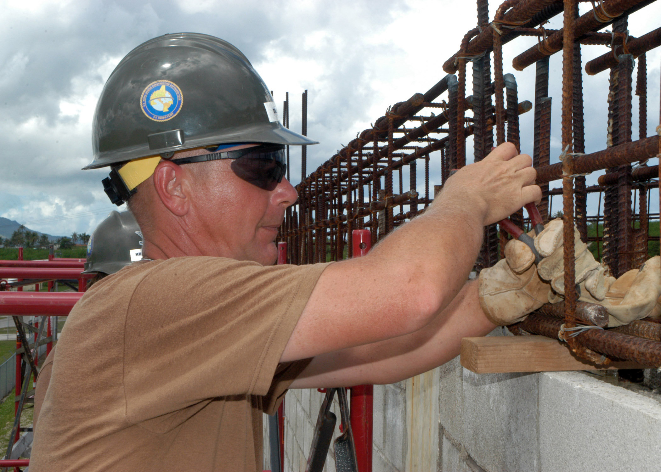 COVINGTON, Guam (July 23, 2007) – Builder 1st Class Phillip Brewer ties a reinforcement bar into the concrete roof of the mechanical shop project at Orote Point Quarry. Naval Mobile Construction Battalion 4 is deployed to Guam supporting construction requirements for Pacific Command. U.S. Air Force photo by Master Sgt. Rickie D. Bickle (RELEASED)